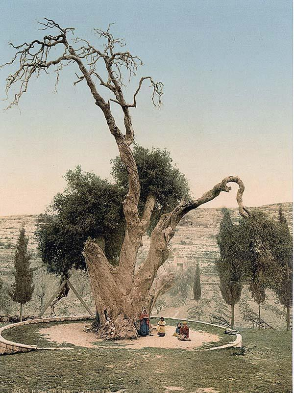 The ancient Oak of Mamre in Hebron.